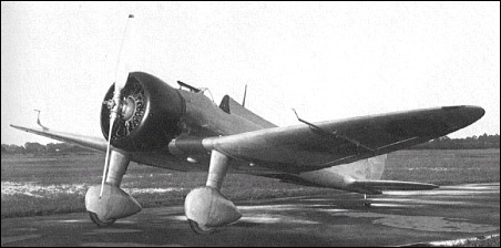 Mitsubishi Ki-33 prototype fighter aircraft